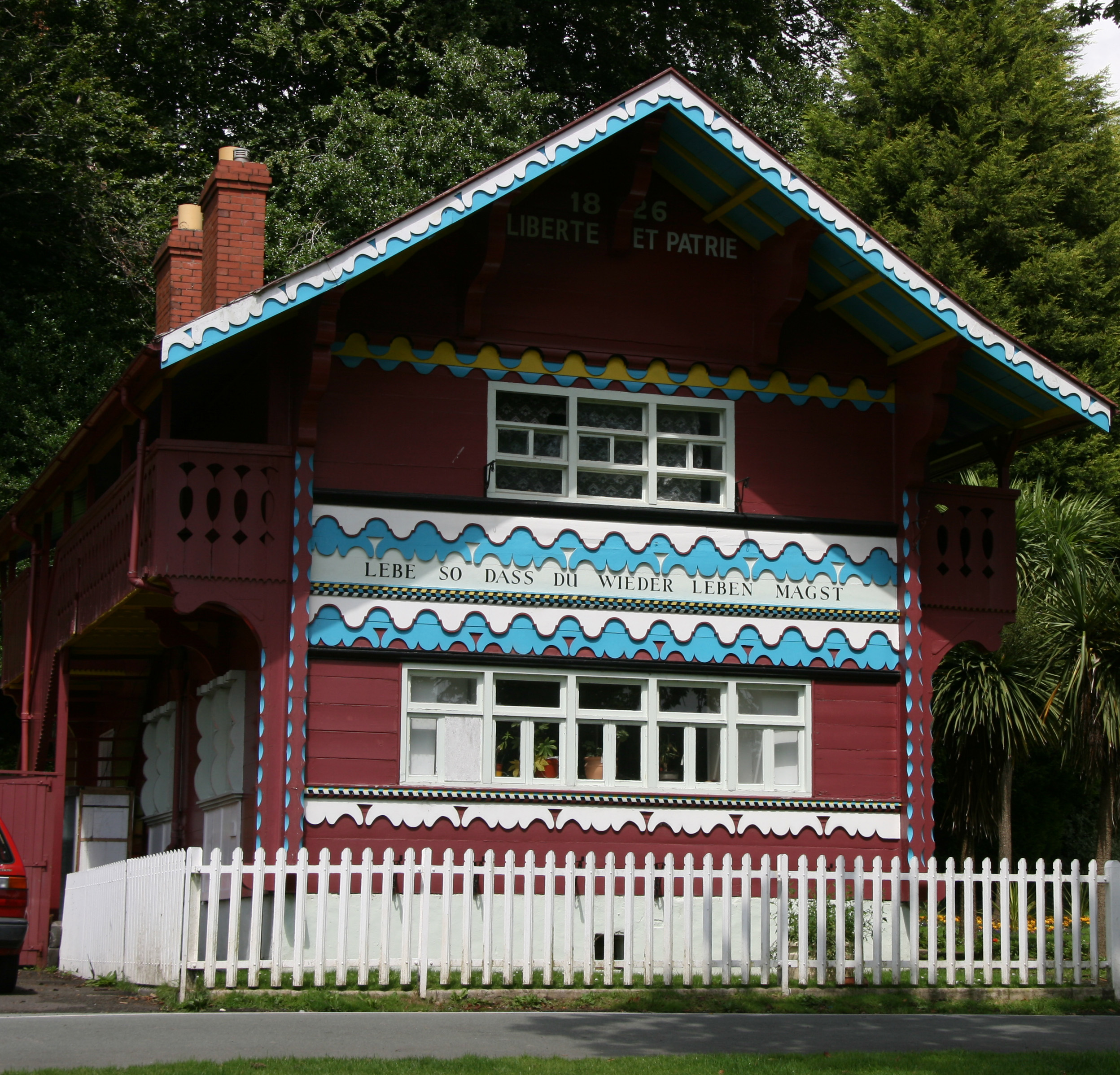 Swiss cottage in Singleton, UK